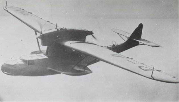 PictionID:38235275 - Catalog:Array - Title:Array - Filename:15_002296.TIF - -------Image from the Charles Daniels Photo Collection.----Album: German Aircraft.-----------PLEASE TAG these images with any information you know about them so that we can permanently store this data with the original image file in our Digital Asset Management System.-----------------SOURCE INSTITUTION: San Diego Air and Space Museum Archive